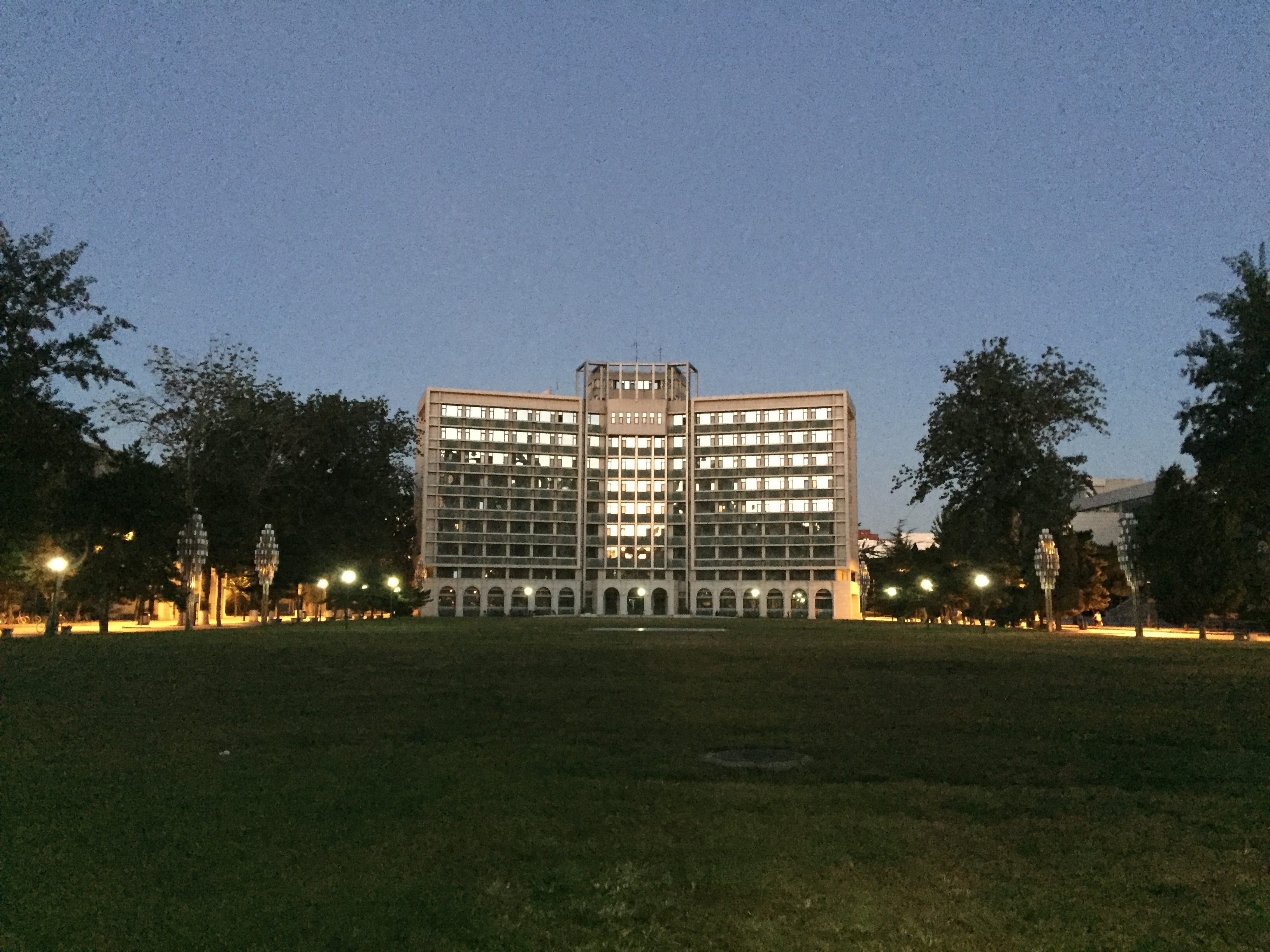 The Arts Building of Renmin University of China.